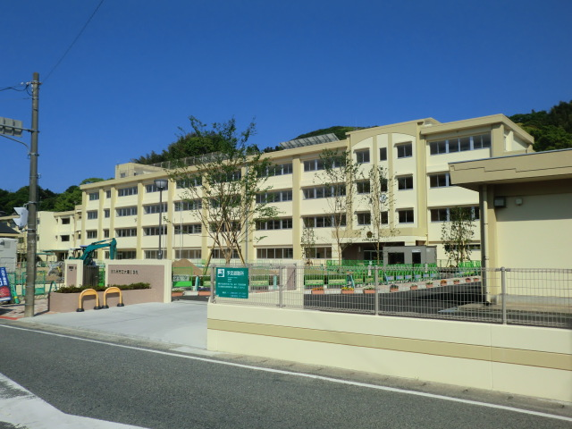 Okura Elementary School in Kitakyushu city,Japan.